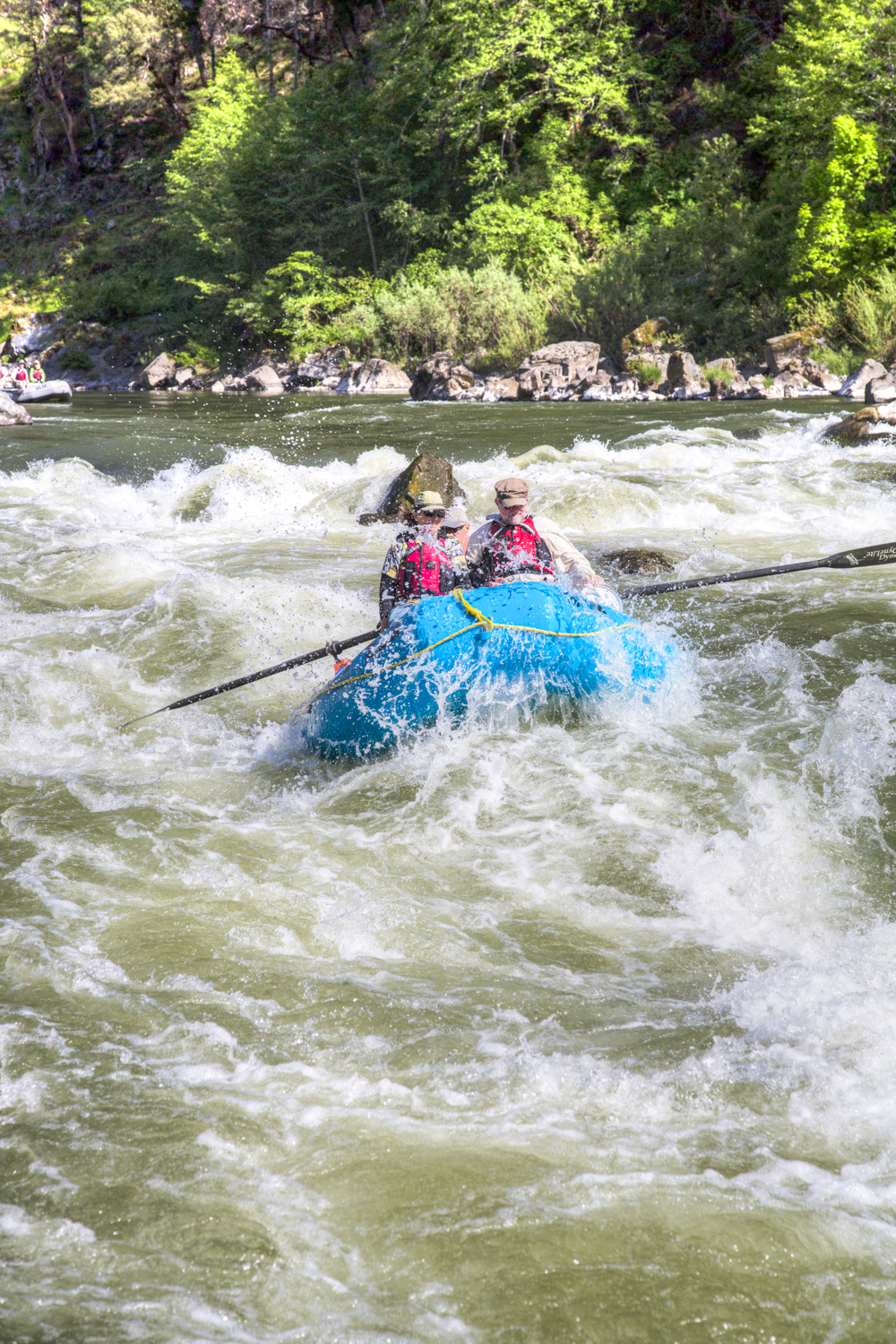 Ever visited a film set? No? How about rafting on one?! Alongside Oregon’s picturesque Rogue River, John Wayne and Katherine Hepburn shot their 1975 film, Rooster Cogburn. And now these public lands can serve as your very own personal backdrop where you’re the star of a movie about hiking, rafting, exploring, and more! Sound good? Then let’s get ready for our close-up with this cinematic selection of new and historic photos from the Rogue River! The Rogue River is located in southwestern Oregon and flows 215 miles from Crater Lake to the Pacific Ocean. The 84 mile, Congressionally-designated "National Wild and Scenic" portion of the Rogue begins 7 miles west of Grants Pass and ends 11 miles east of Gold Beach. The Rogue was one of the original eight rivers included in the Wild and Scenic Rivers Act of 1968. The Rogue National Wild and Scenic River is surrounded by forested mountains and rugged boulder and rock-lined banks. Steelhead and salmon fishery, challenging whitewater, and extraordinary wildlife viewing opportunities have made the Rogue a national treasure. Black bear, river otter, black-tail deer, bald eagles, osprey, Chinook salmon, great blue heron, water ouzel, and Canada geese are common wildlife seen along the Rogue River. Popular activities include: whitewater rafting, fishing, jet boat tours, scenic driving, hiking, picnicking, and sunbathing. And to learn more about the Rogue River, please visit our homepage: Photo by Bob Wick, BLM